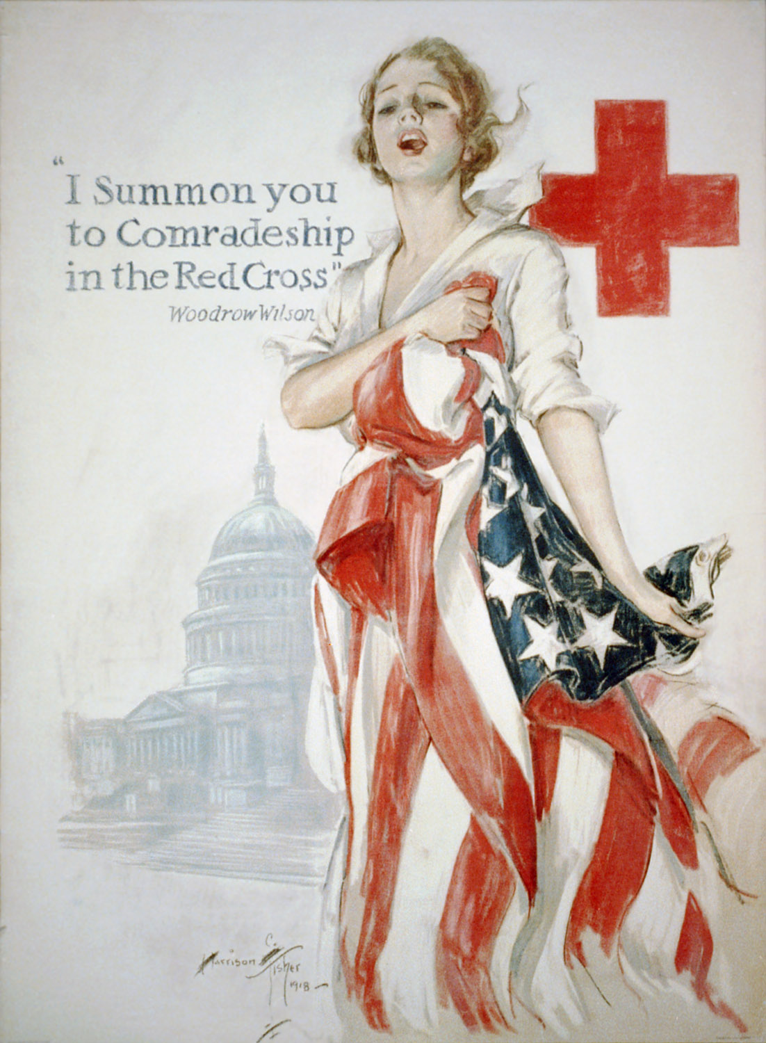 World War I American red Cross poster by American illustrator Harrison Fisher (1875-1934). Caption: "I summon you to comradeship in the Red Cross" - Woodrow Wilson.